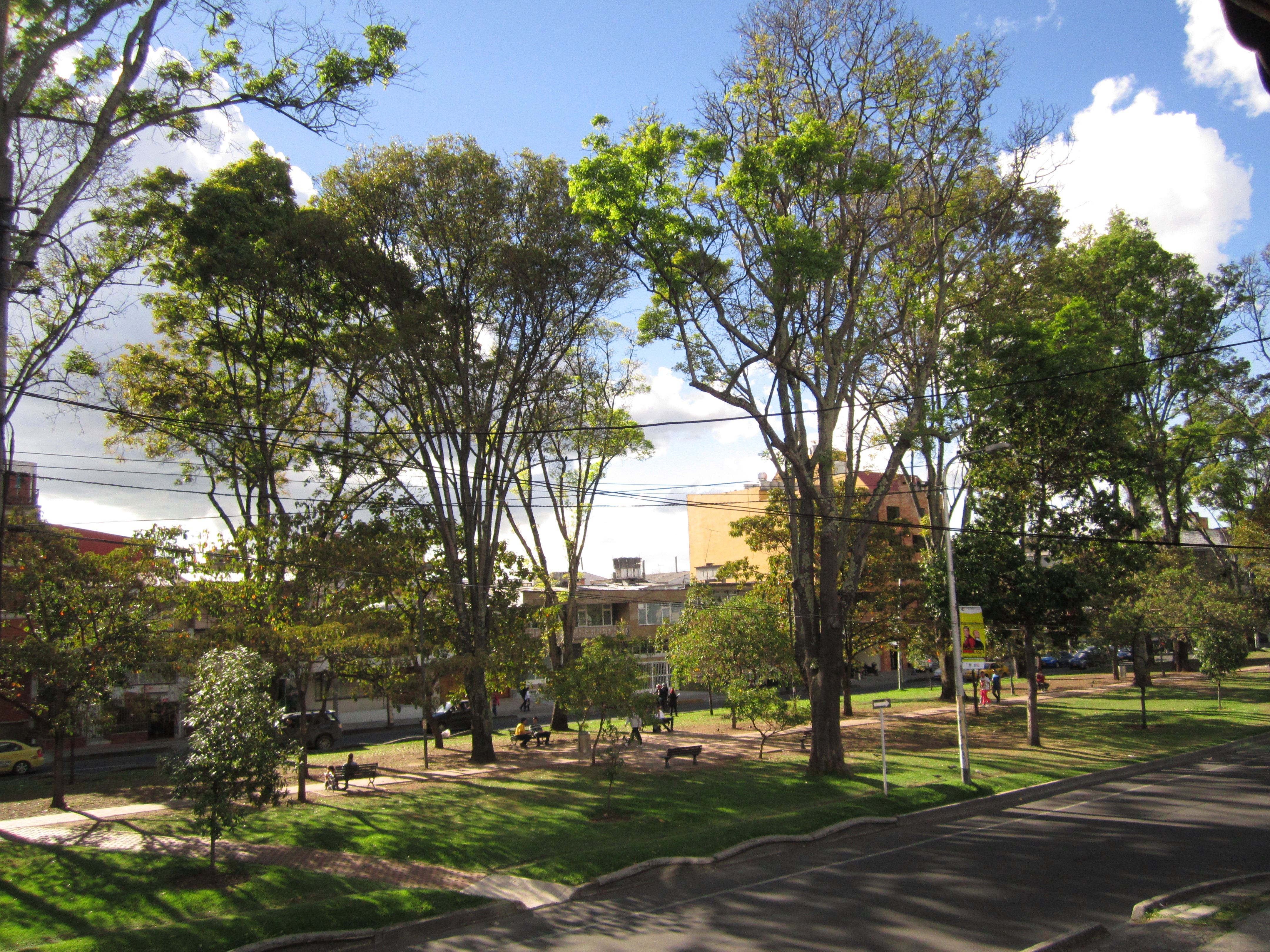 Bogotá